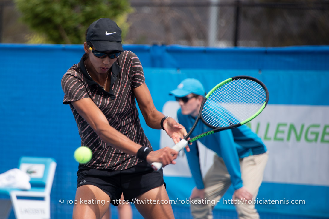 Astra Sharma at the 2018 Apis Canberra International